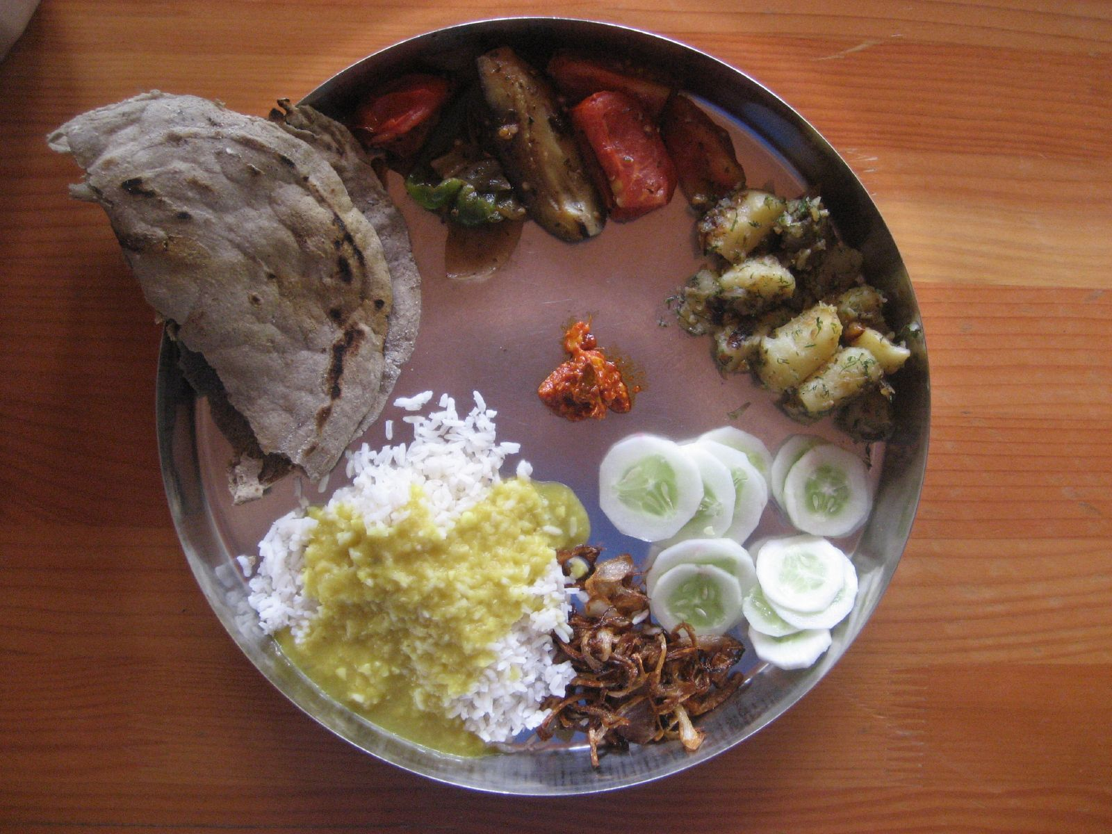 bhakri served as a part of indian meal